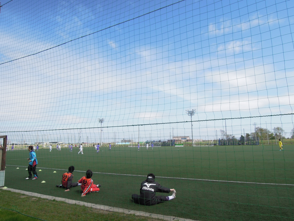 Sapporo Soccer Amusement Park (artificial turf ground), Hokkaido Soccer League match between Sapporo University Goal Plunderers and Komazawa OB FC, on 13 May 2012